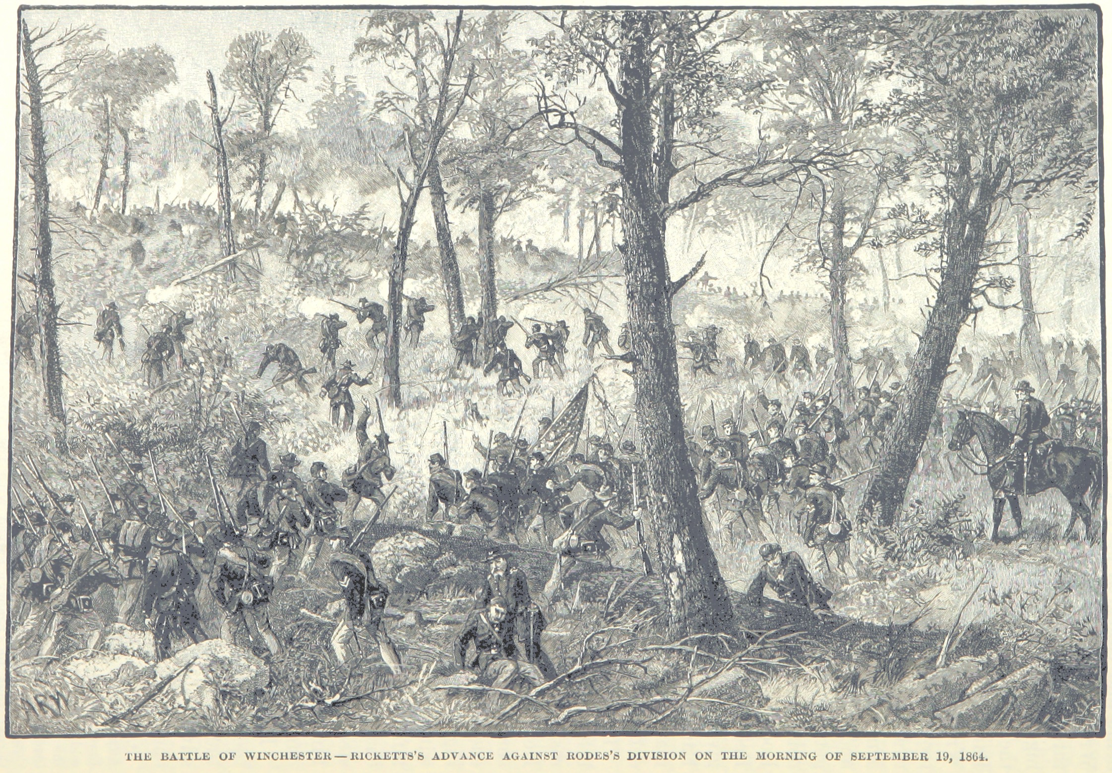 During the Third Battle of Winchester, Union troops of Rickett's division advance against the Confederate division of General Rodes.